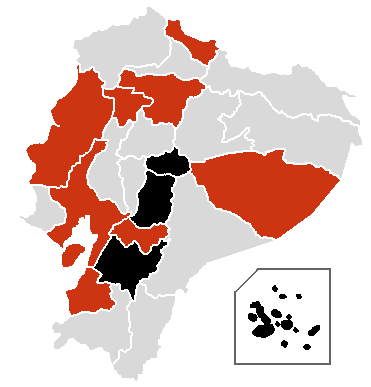 A map about the 2009 A (H1N1) flu outbreak in Ecuador death confirmed confirmed cases unconfirmed cases